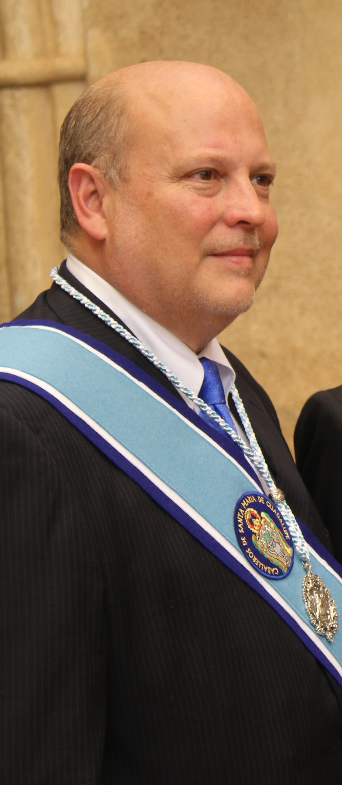 Richard Fifer is named Caballero de Santa Maria de Guadalupe